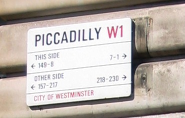 Piccadilly street sign. Photographed by user:Skyring April 2005